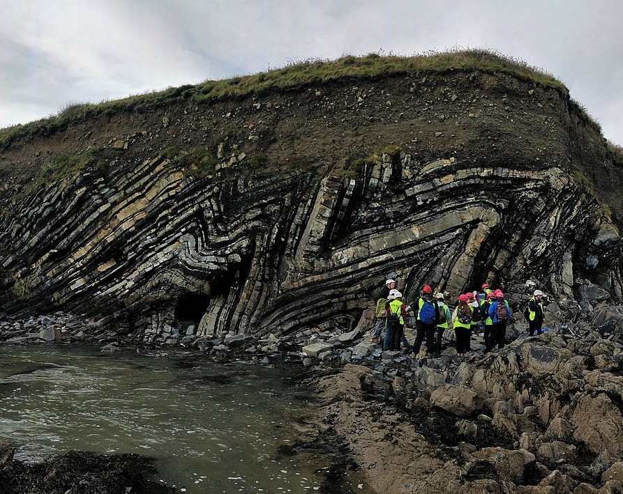 Folds observed during the Girls into Geoscience inaugural Irish Fieldtrip